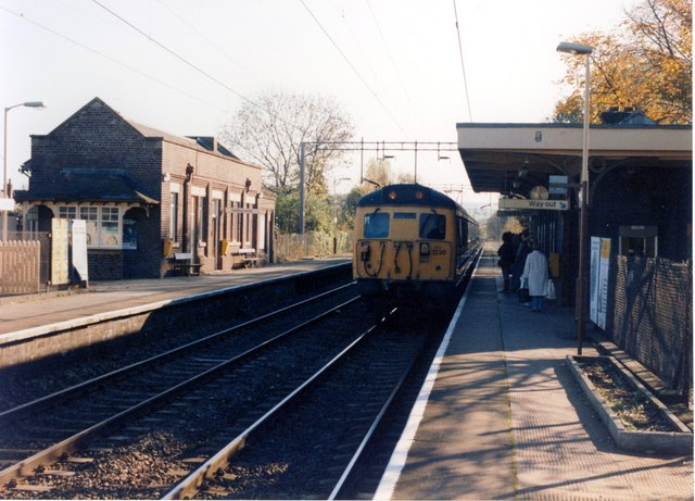 Bramhall railway station Original description: Bramhall station Macclesfield - Manchester Piccadilly local arriving